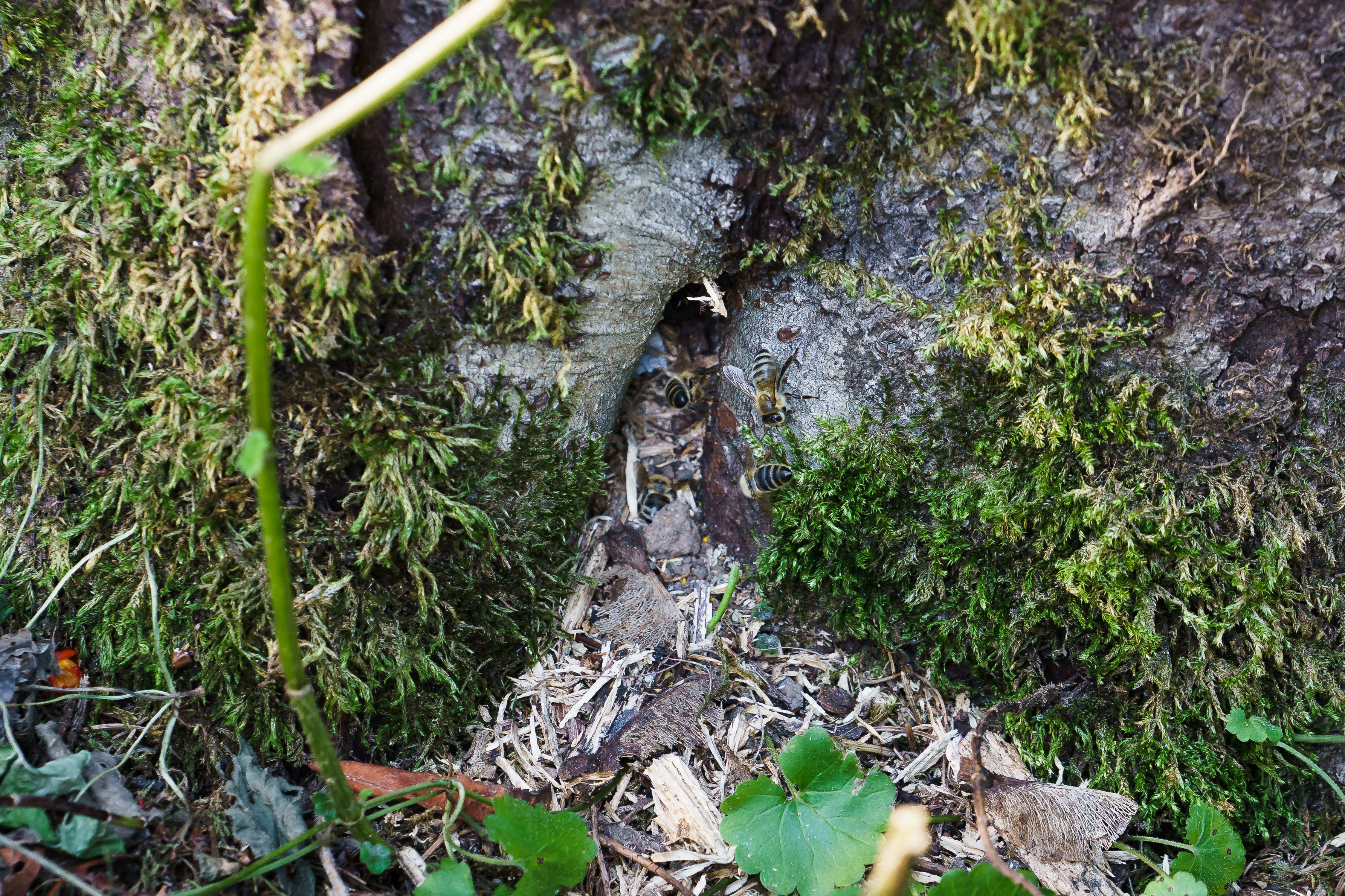 Wild bees, possibly absconded Carniolan honey bee (Apis mellifera carnica) - nest in the trunk of a spruce, Vogelsberg Mountains